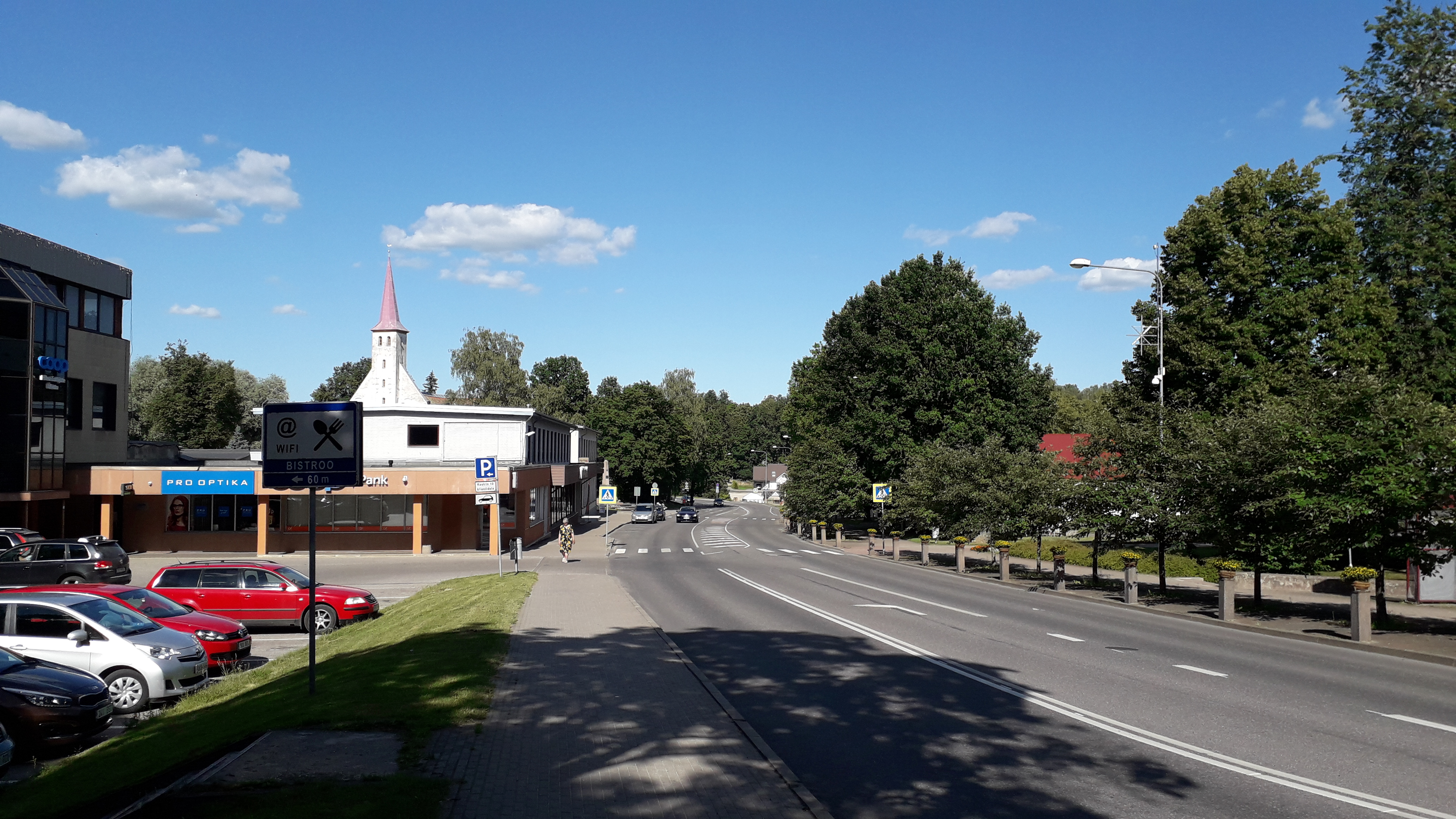 Põlva